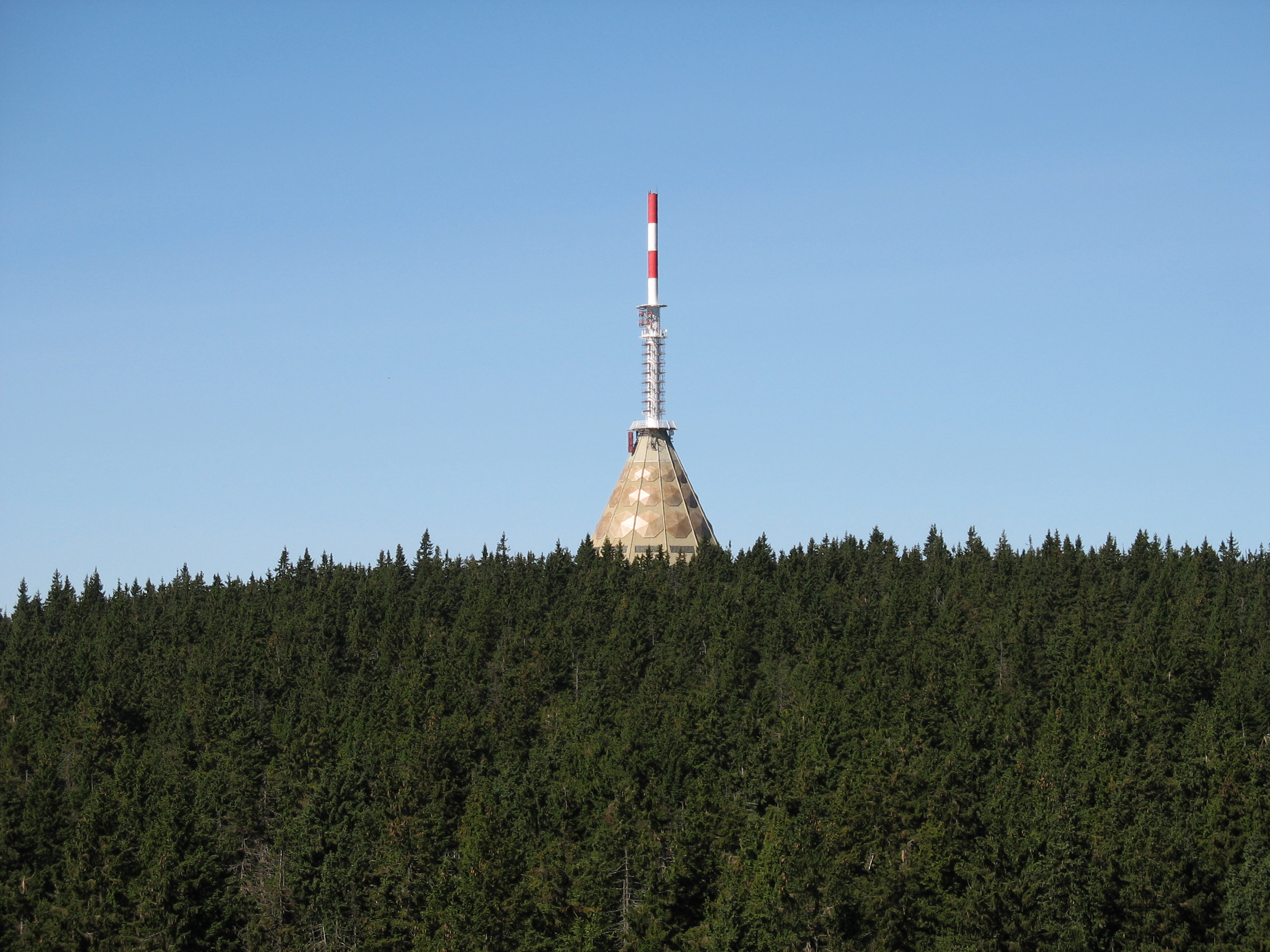 Transmitter in Cerna hora